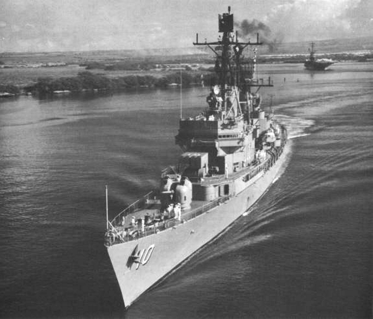 The U.S. Navy guided missile destroyer USS King (DLG-10) departing Pearl Harbor, Hawaii (USA), on 19 August 1963. Note the Essex-class aircraft carrier in the background. The carrier is probably USS Oriskany (CVA-34) which was deployed to the Western Pacific from 1 August 1963 to 10 March 1964.